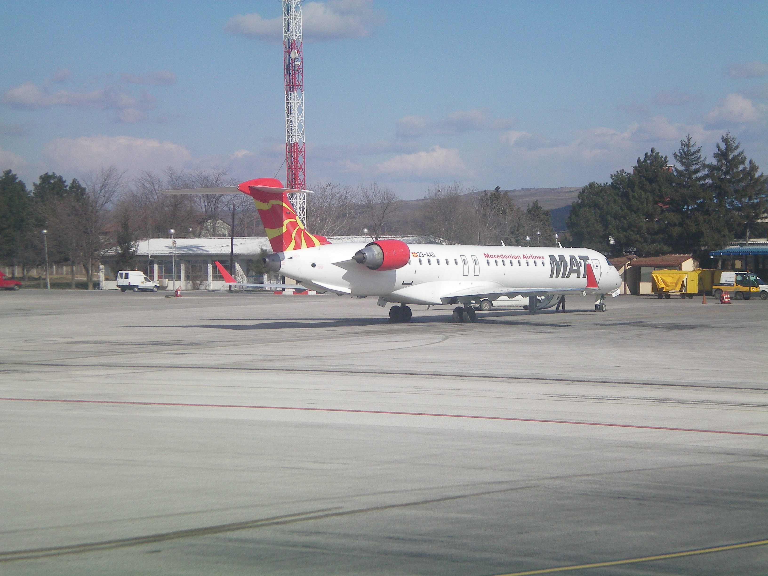 MAT Macedonian on Alexander the Great Airport Platform, Skopje, Macedonia